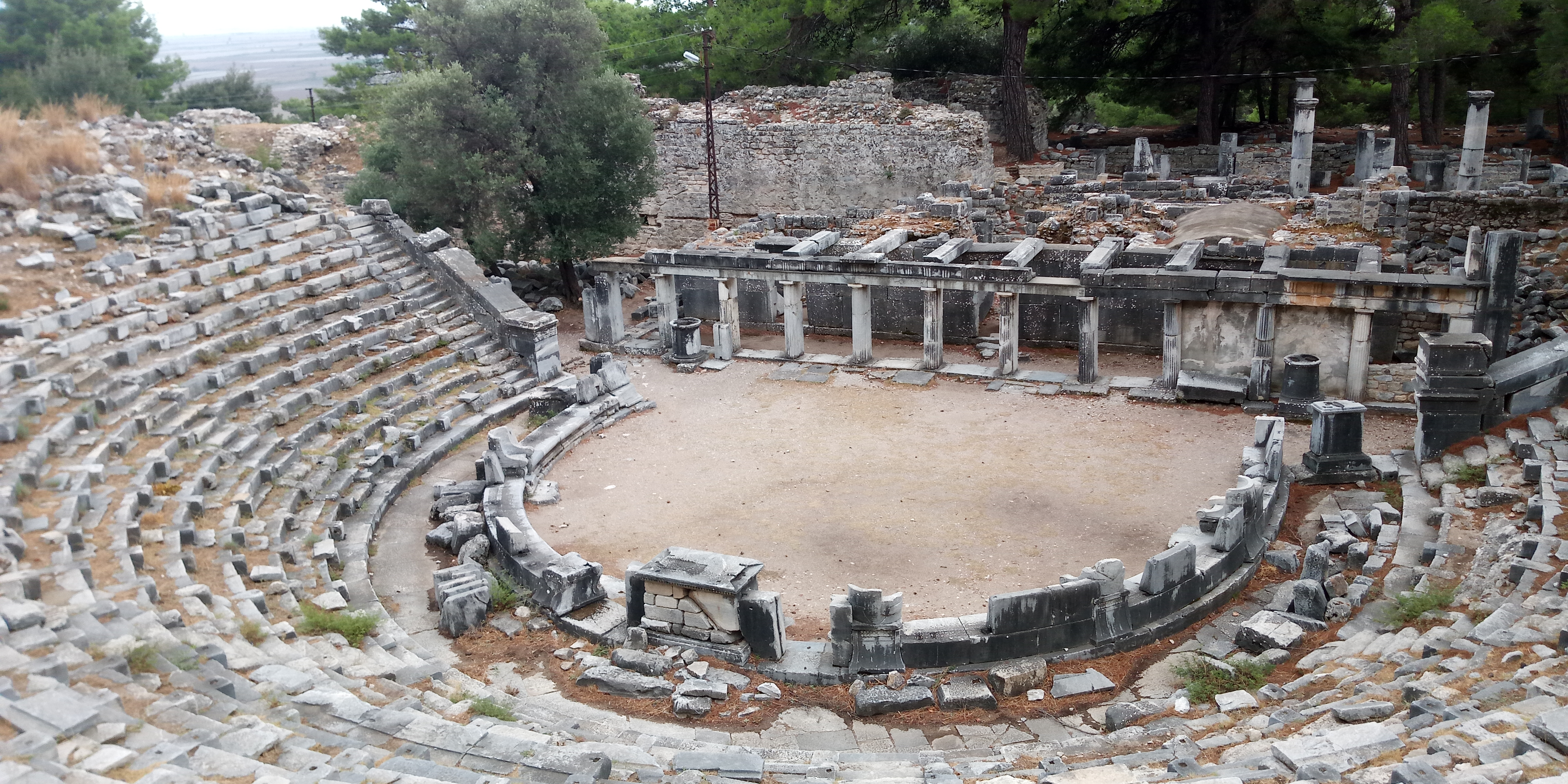 Orchestra of the Greek theatre at Priene, looking spouth